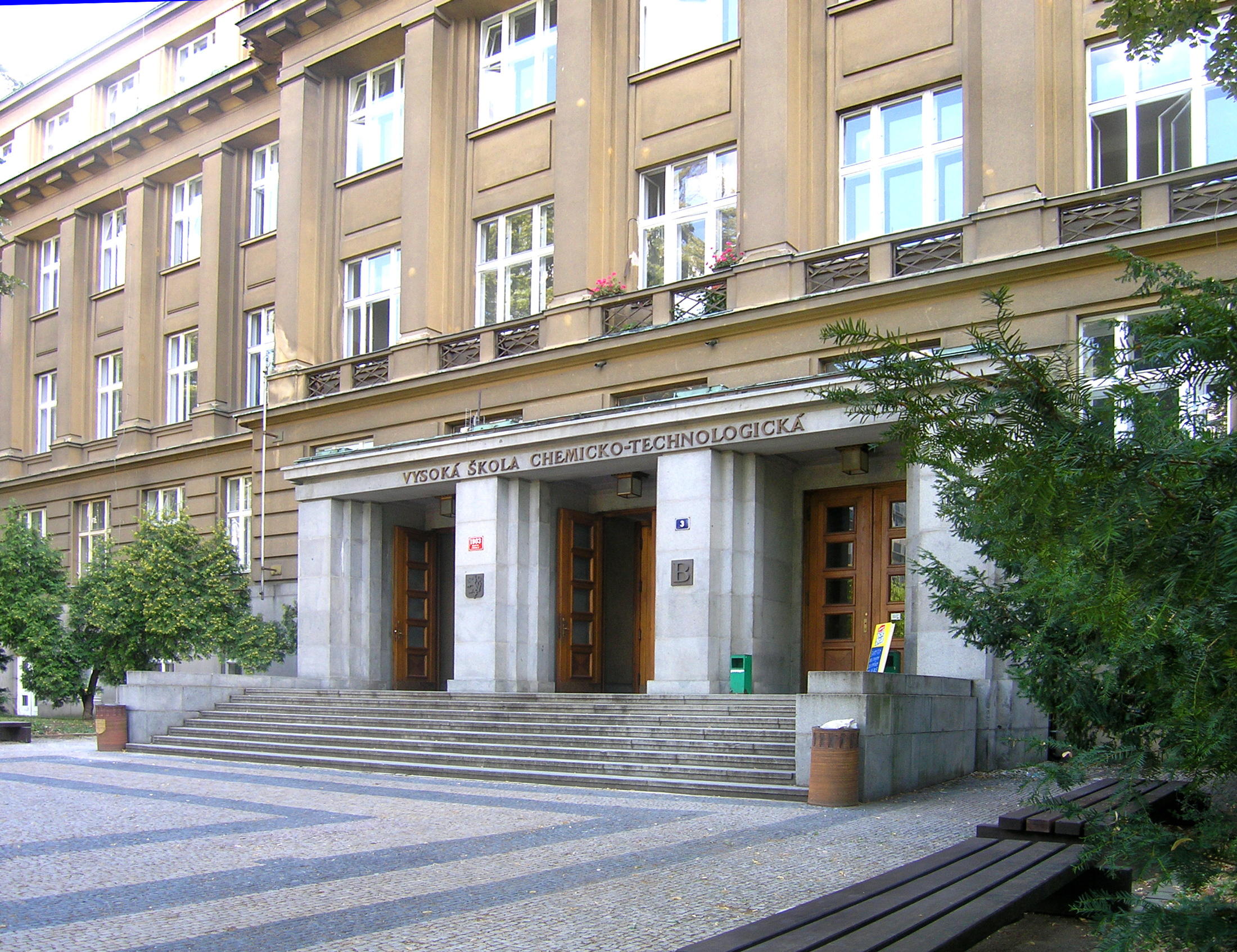 Institute of Chemical Technology at Technická street at Dejvice, Prague